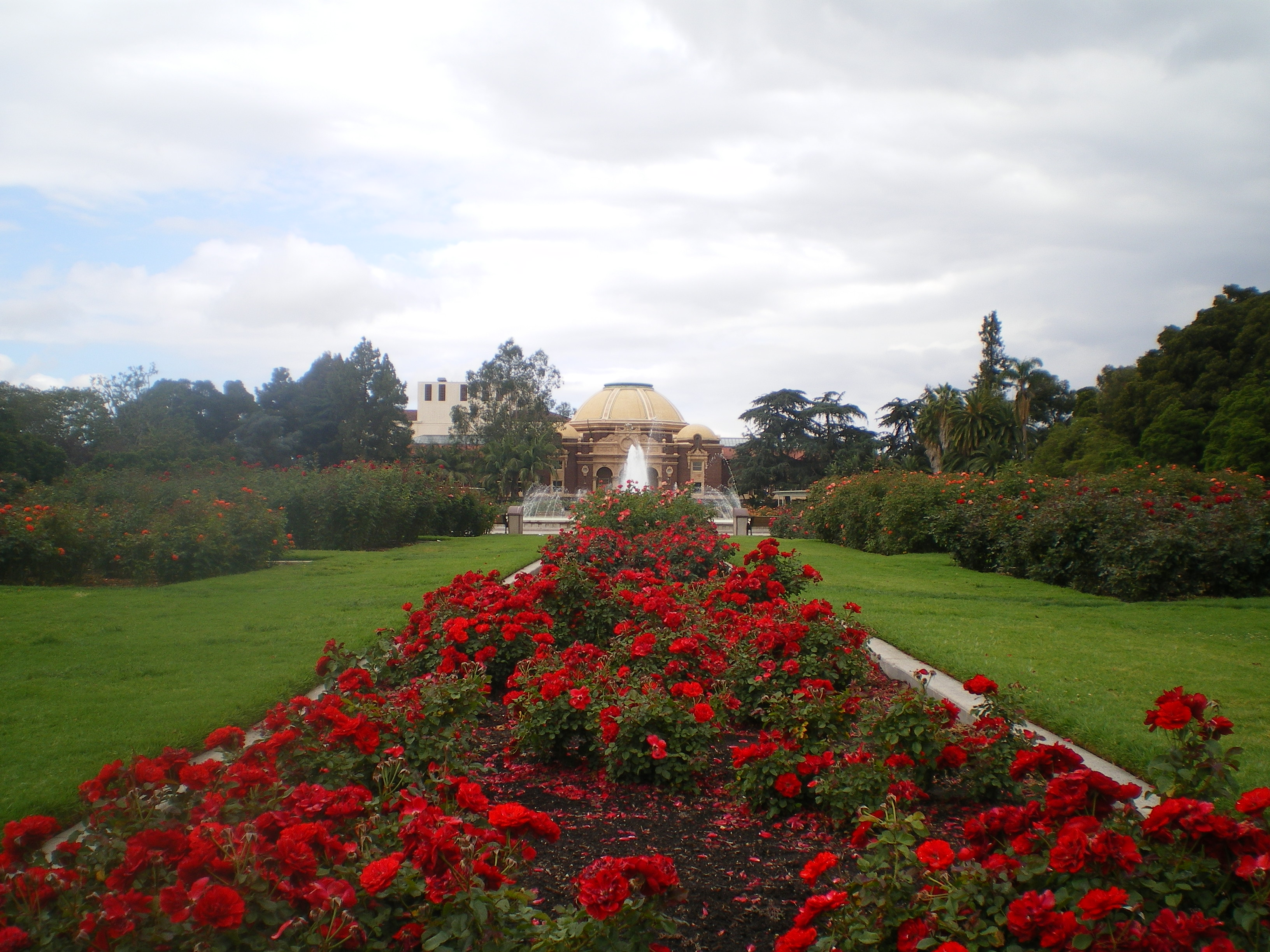 Exposition Park Rose Garden — central Los Angeles, California.